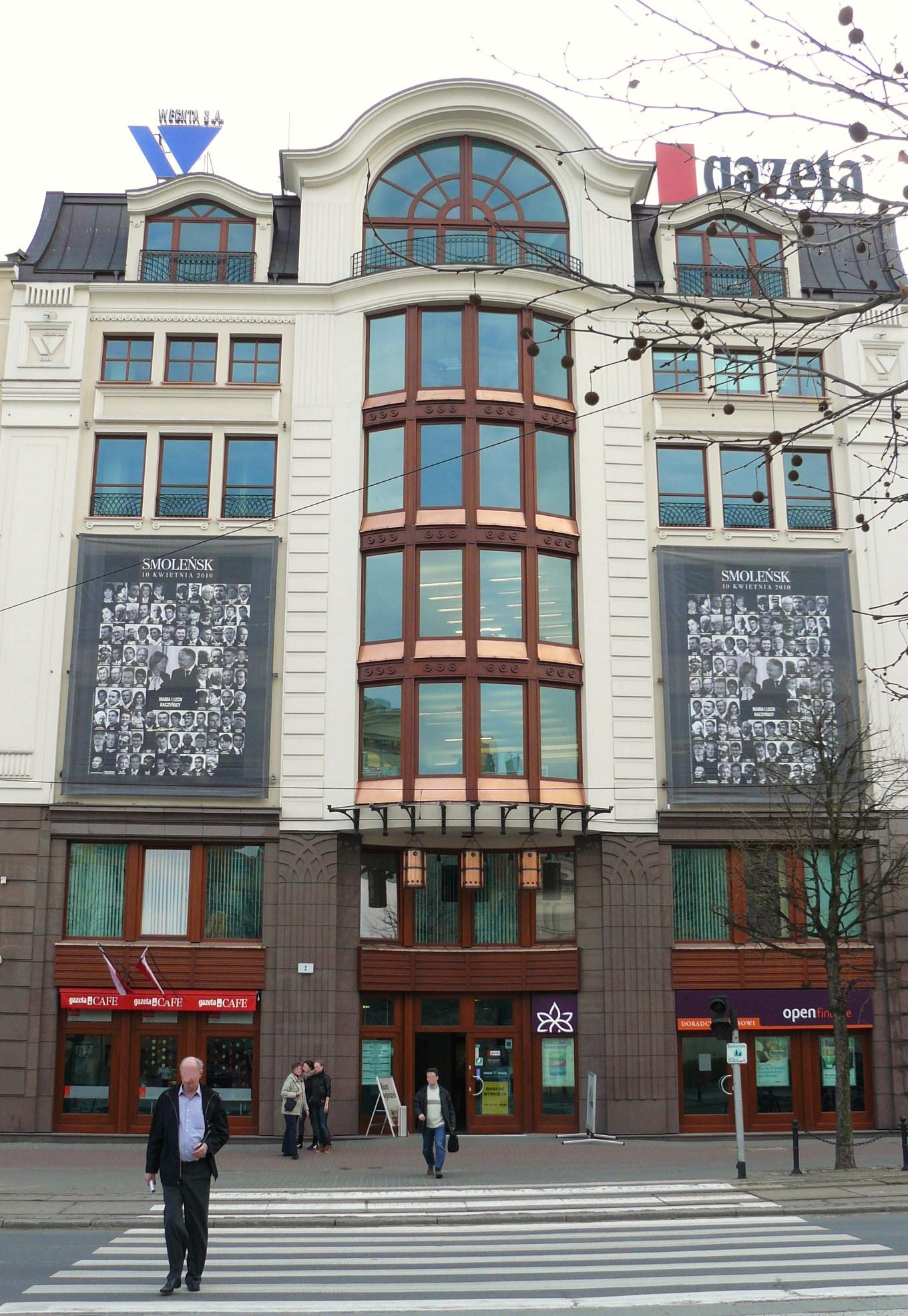 Gazeta Wyborcza Building in Poznan.